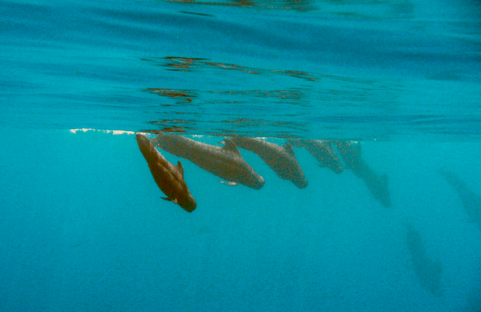 Thanks to Luna & Alasdair knox for letting me barrow their camera as i didn't have my housing on the boat at this time (as usual) Taken with a Panasonic Lumix DMC-TZ5 SPECIES:Melaena (long-finned) Macrorhynchus (short-finned) Adult Male approximate length:6meters and can weigh up to 3Tons Female approximate length:5meters and can weigh up to 1.5Tons These pictures were taken in between the channel of vadhoo about a mile close to the Maldivian Airport. Pilot Whales have been observed yearly around the months of March and April in South and North of Male' Atoll 2nd of April 2009 fin count of aprox 22 pilot whales